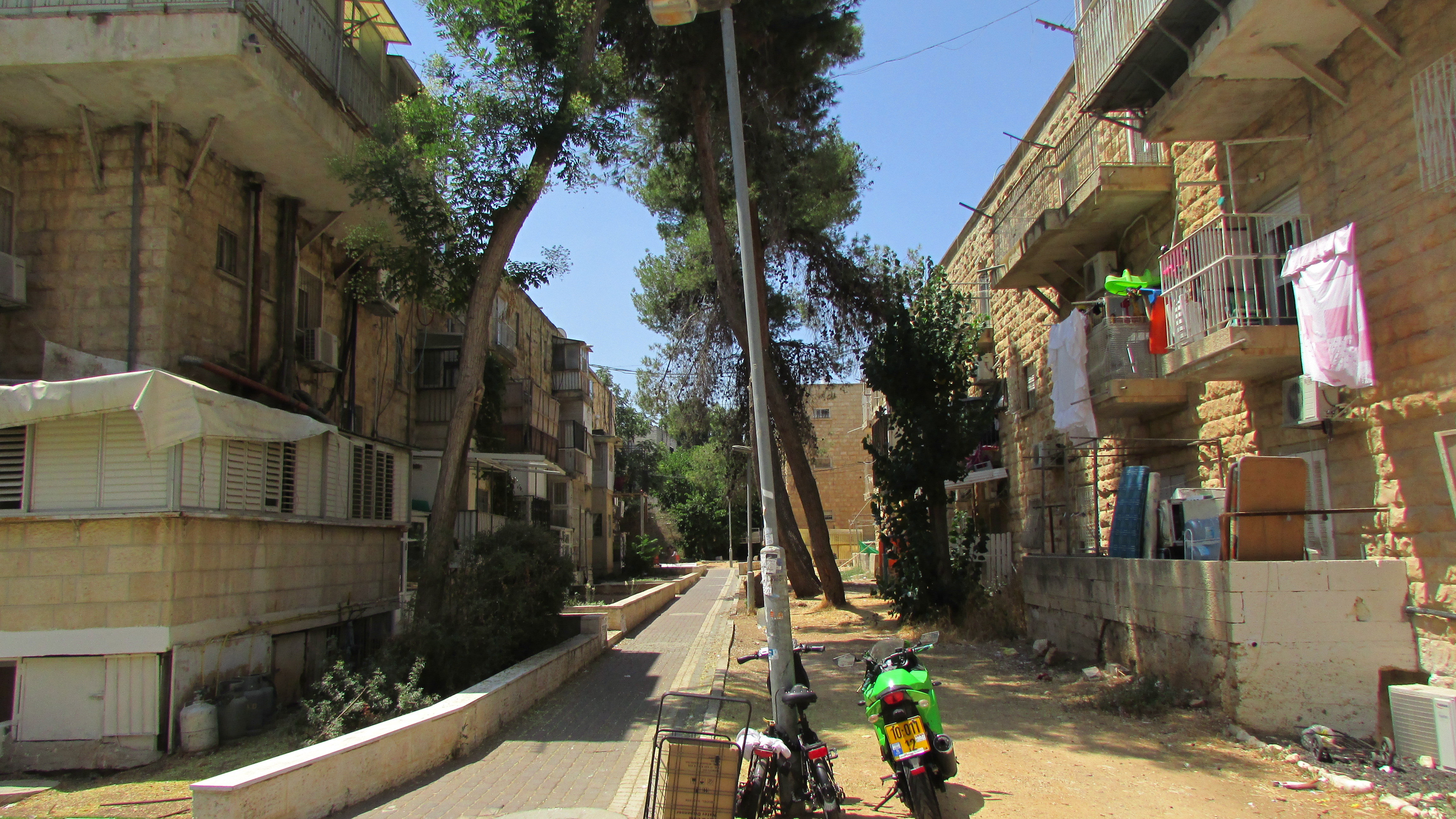 Shikun Pagi originally included 3 long three-story buildings. This is a view of the path between two of the buildings. On the far end are two separate smaller buildings which were probably added later.